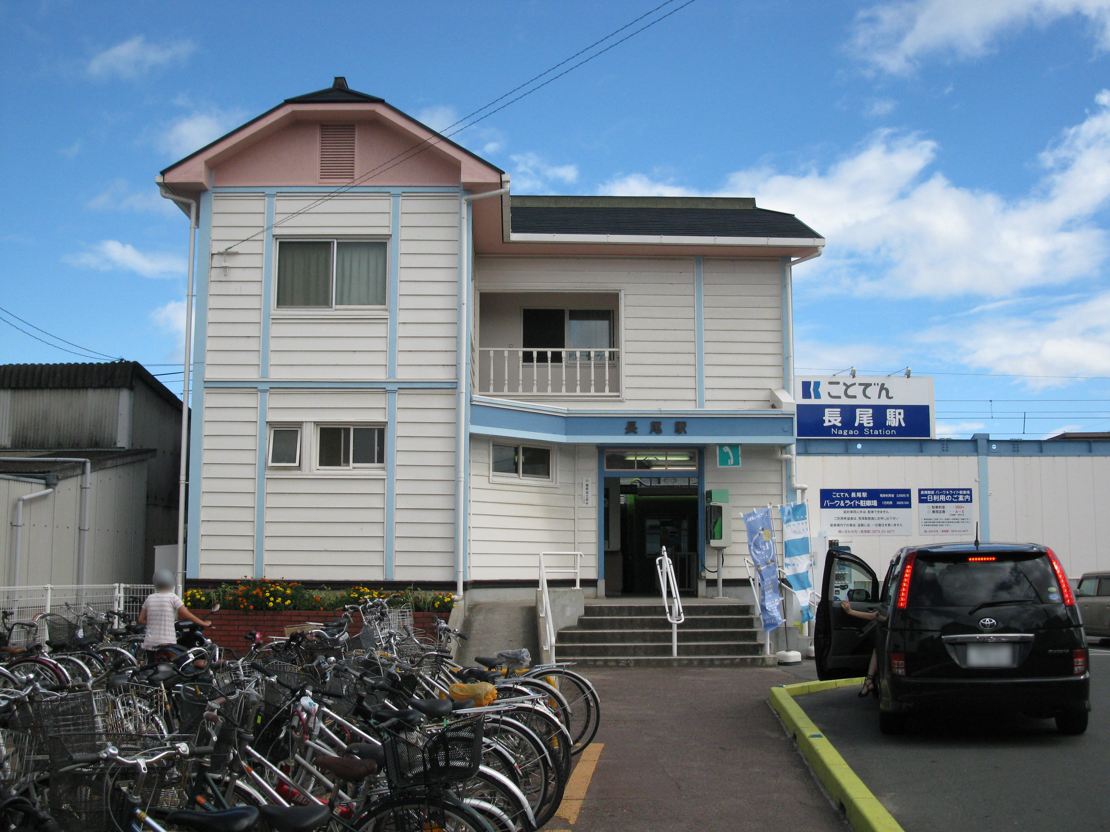 Nagao Station building (Takamatsu-Kotohira Electric Railroad(Kotoden) Nagao Line)